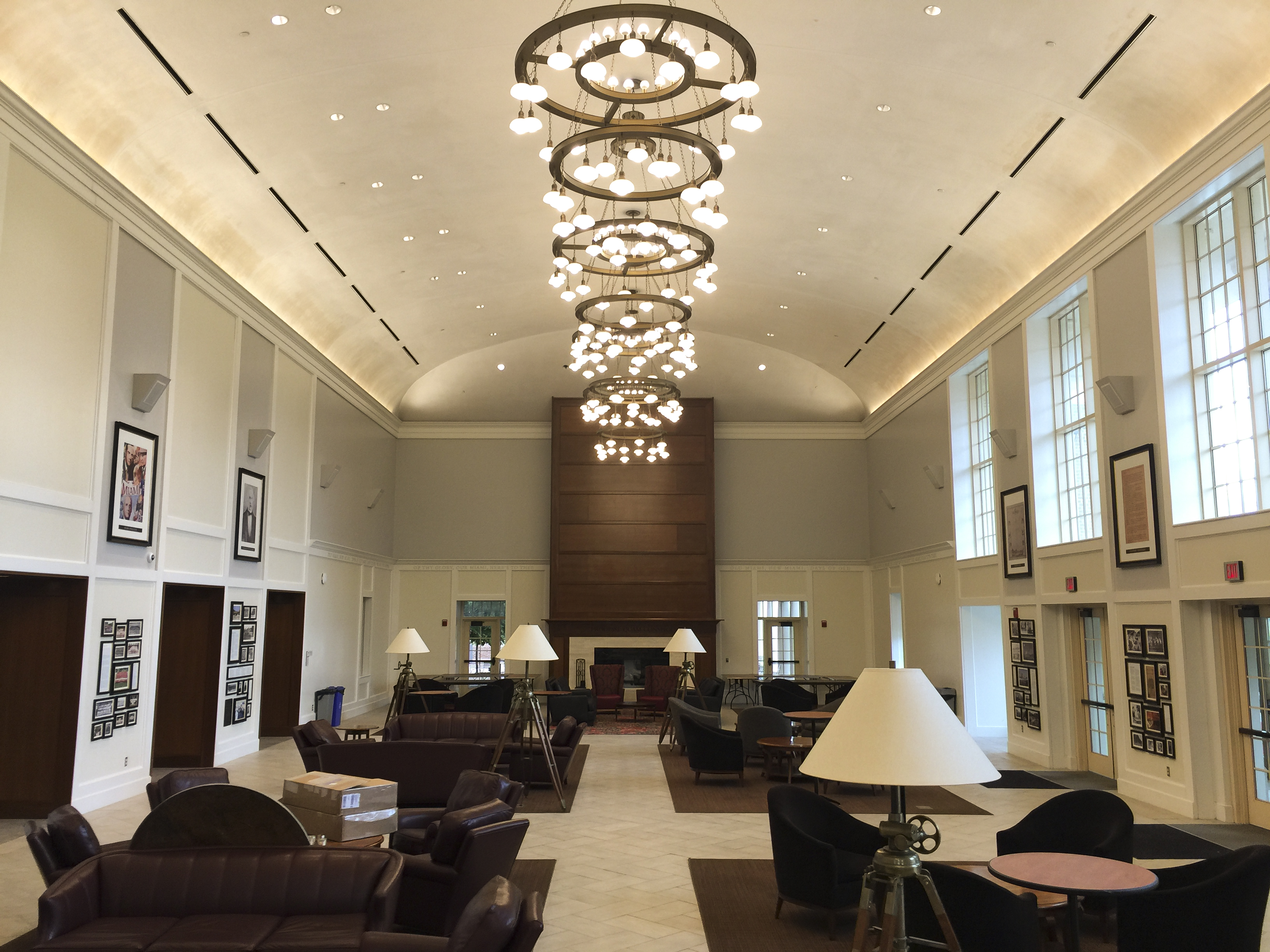 Armstrong Student Center, Miami University.